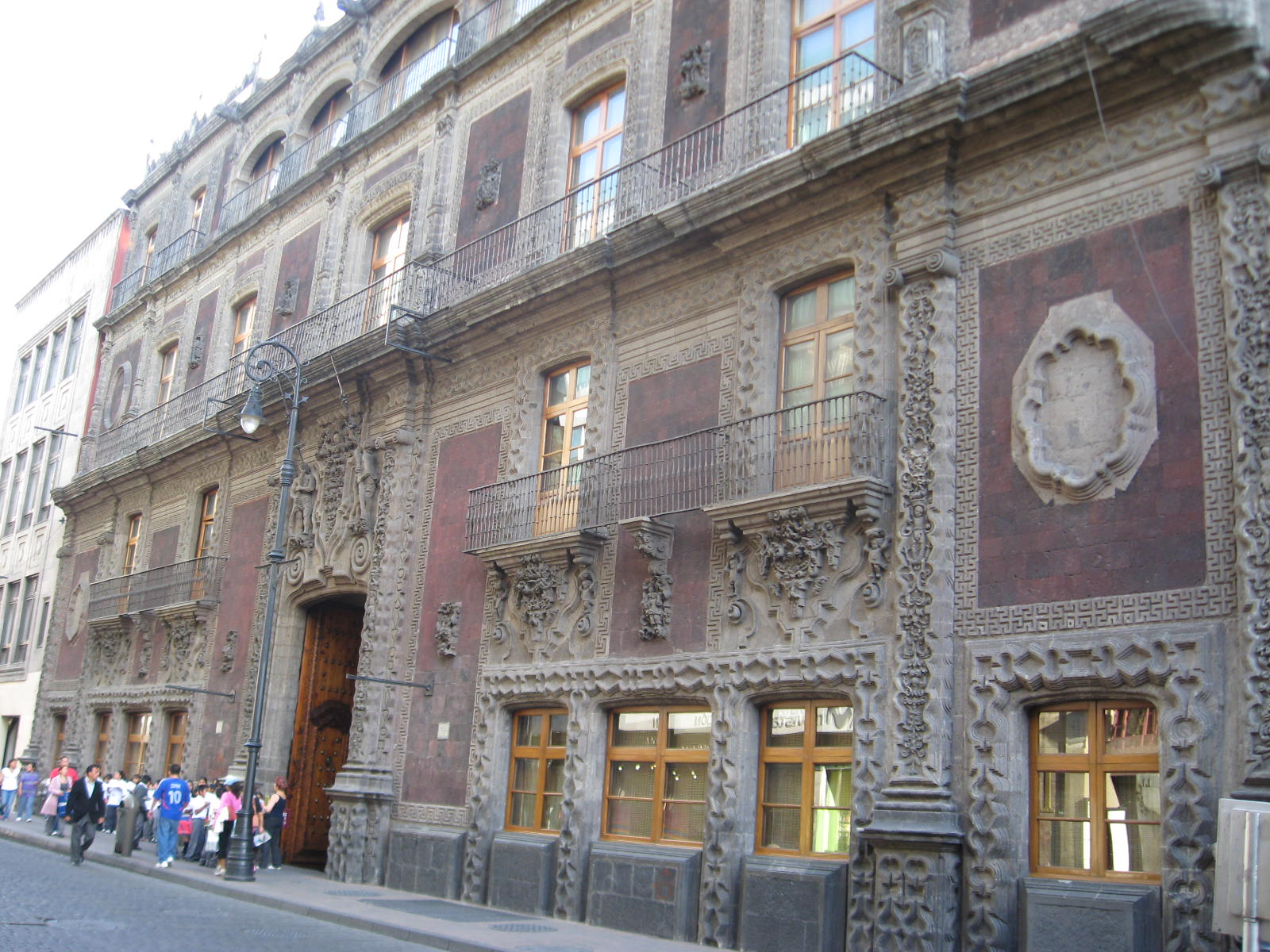 Facade of the Palace of Iturbide located in Mexico City